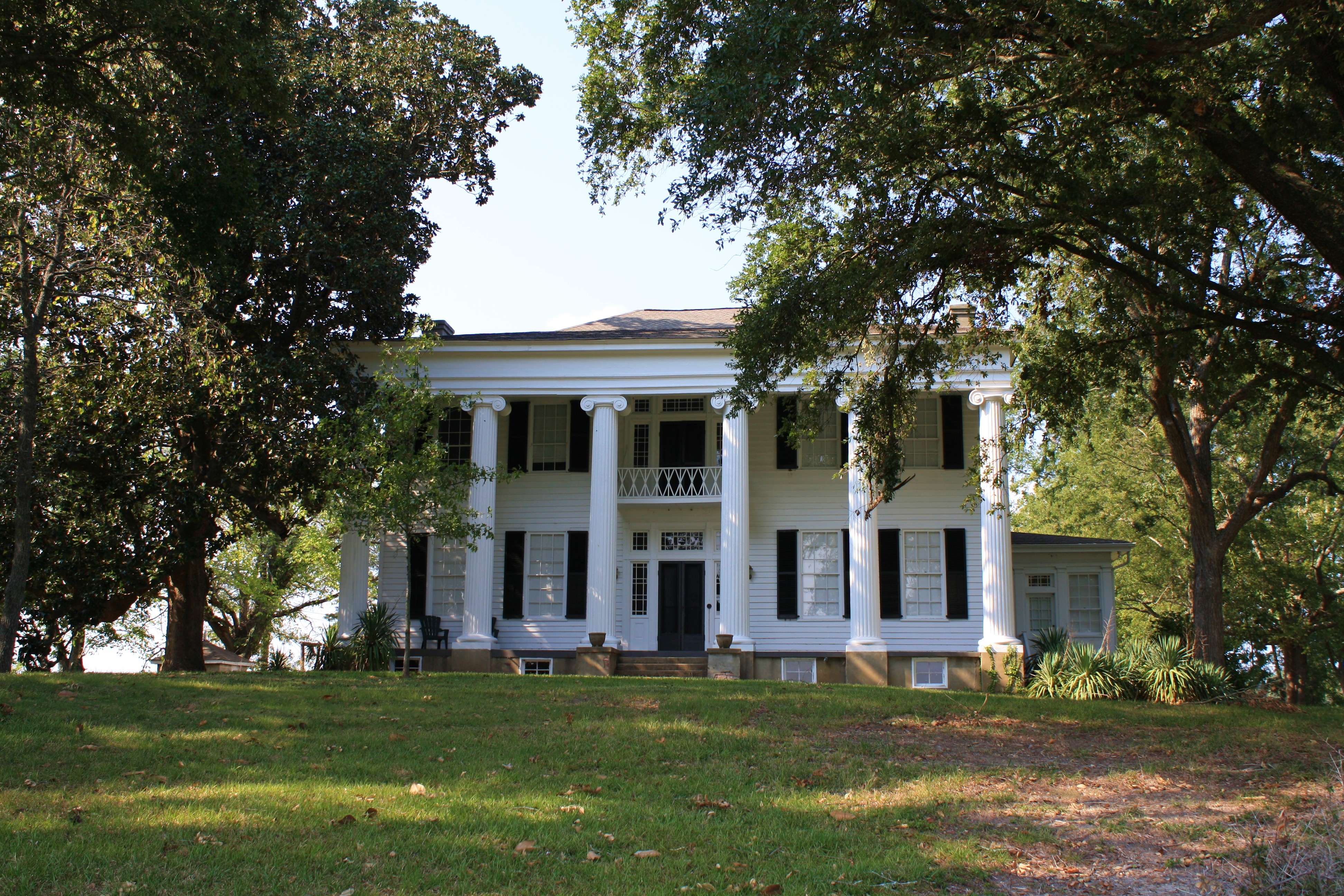 Thornhill, a historic plantation house in Greene County, Alabama.